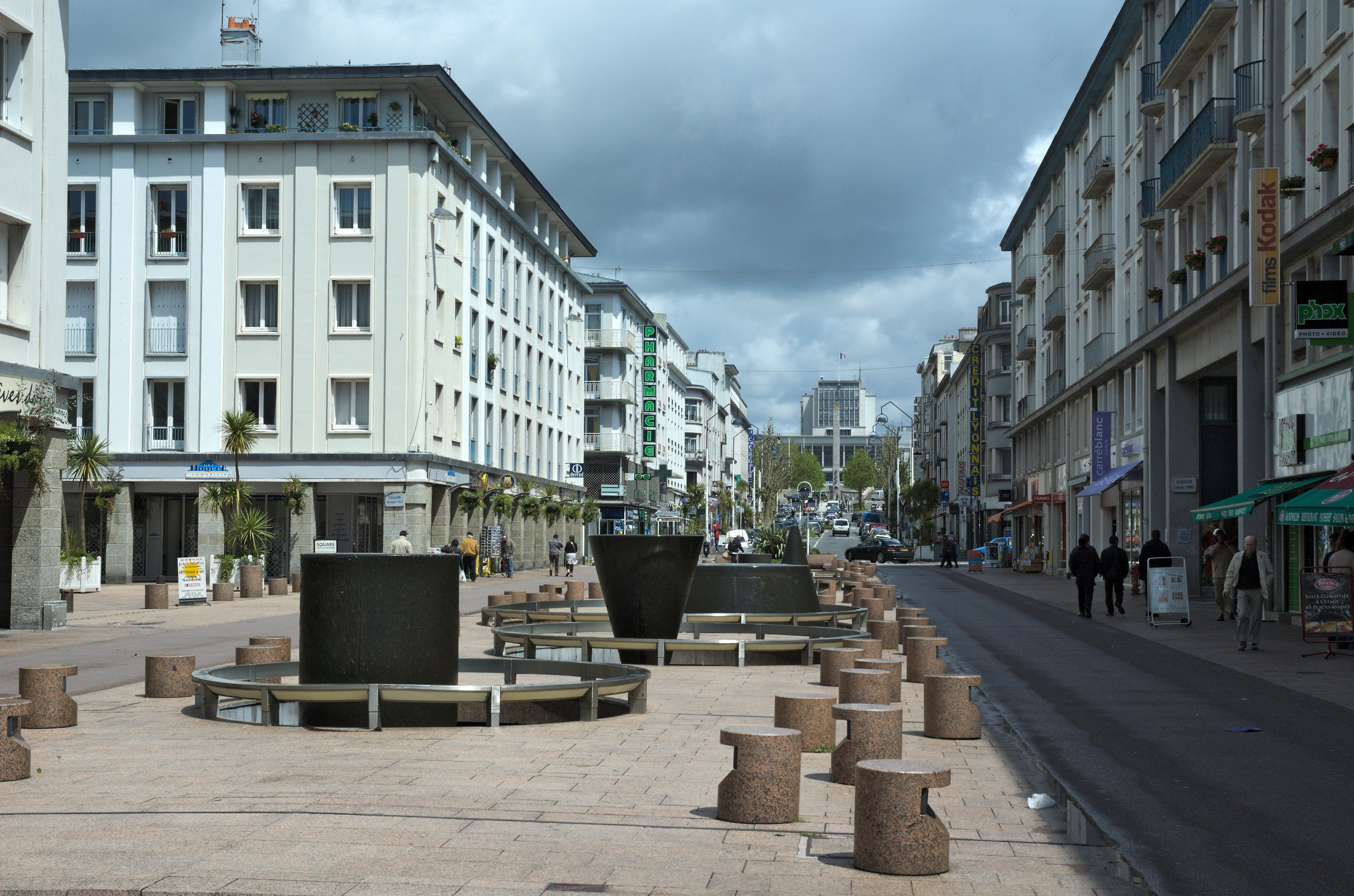 Rue de Siam, Brest, looking towards the city hall.